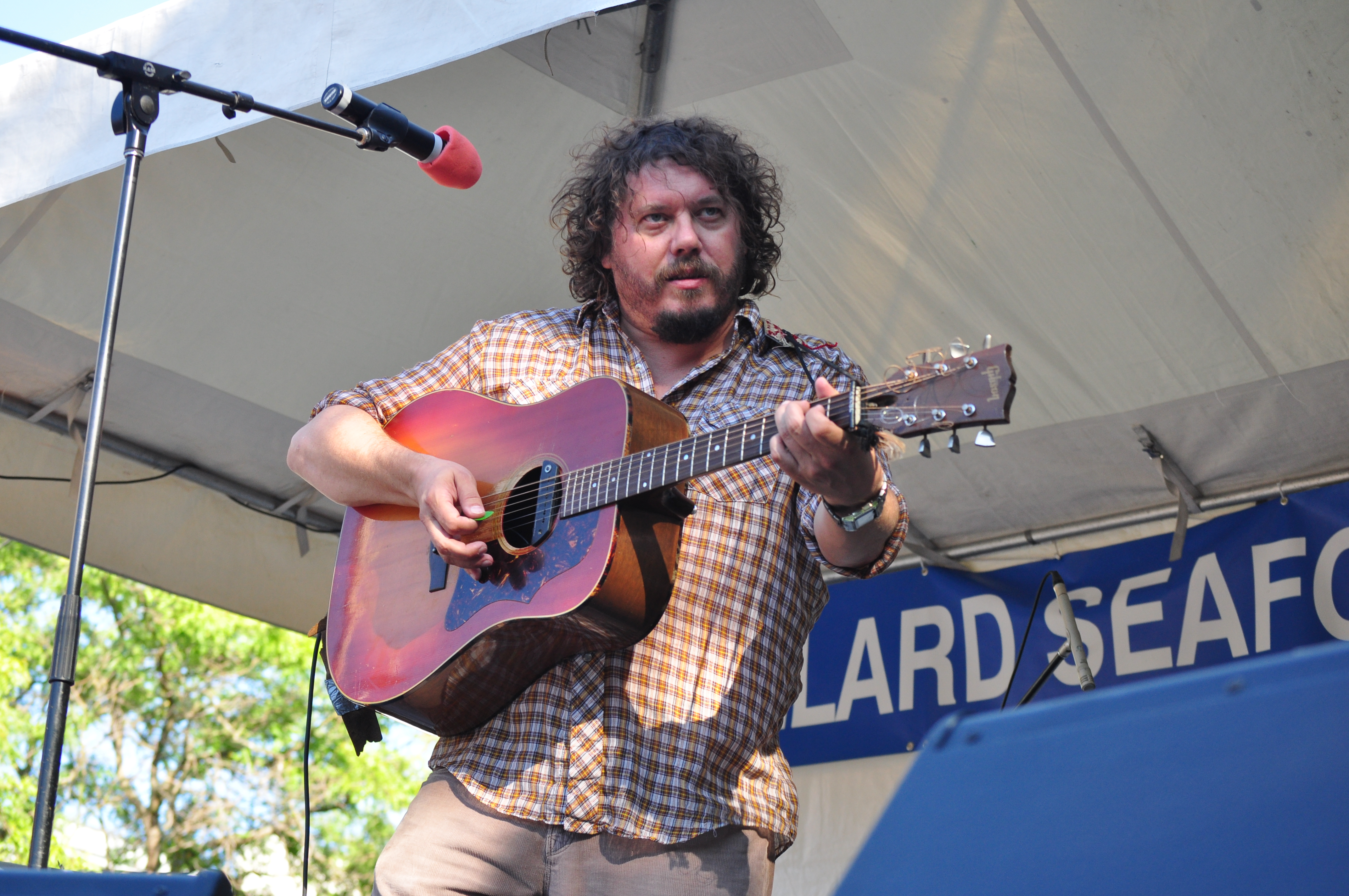 Bobby Bare, Jr. performing at Ballard Seafood Fest 2013, Ballard, Seattle, Washington.